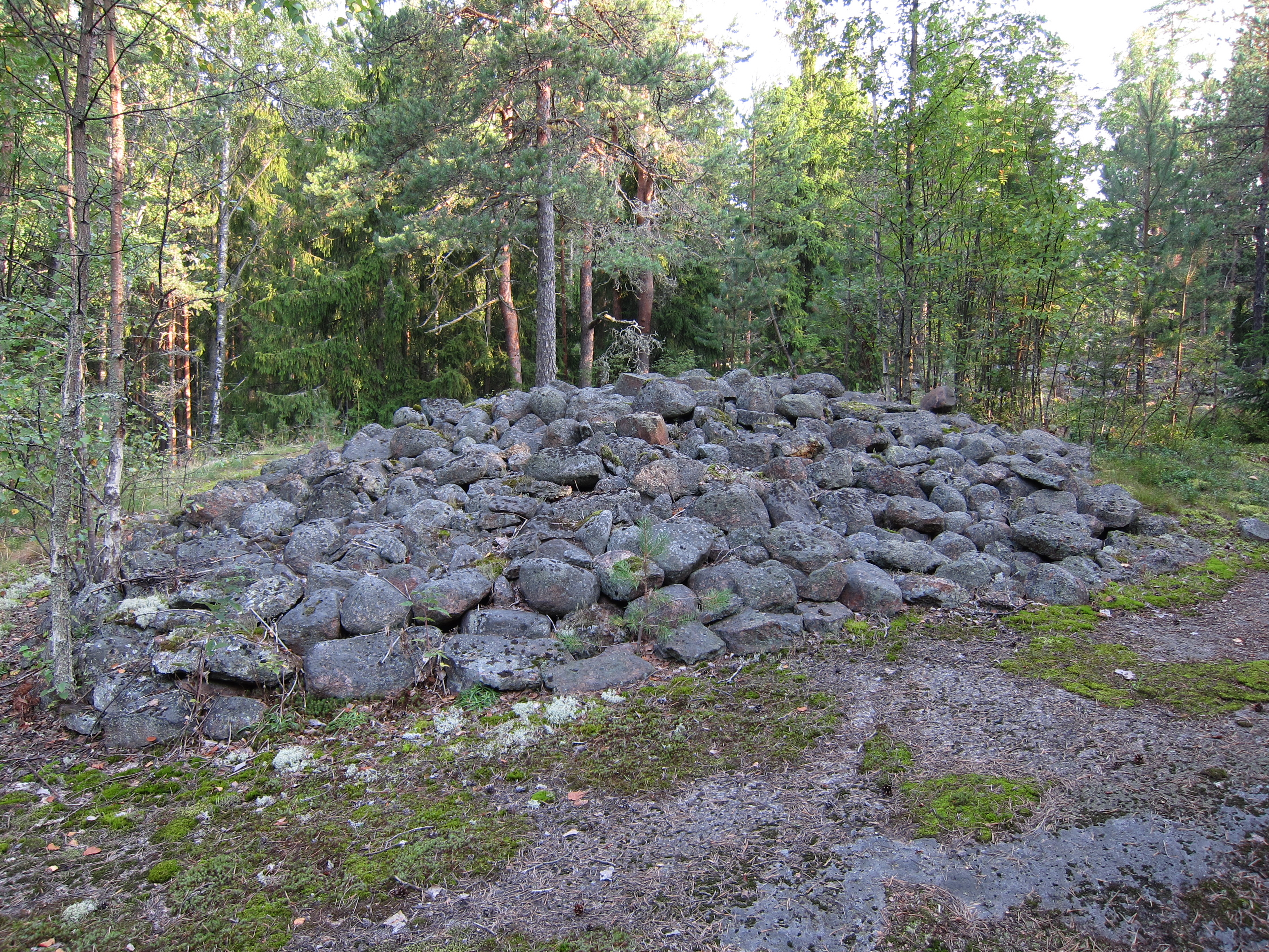 A cairn (hiidenkiuas) in Höyterinpohja, Kotka, Finland. Another cairn on the background.